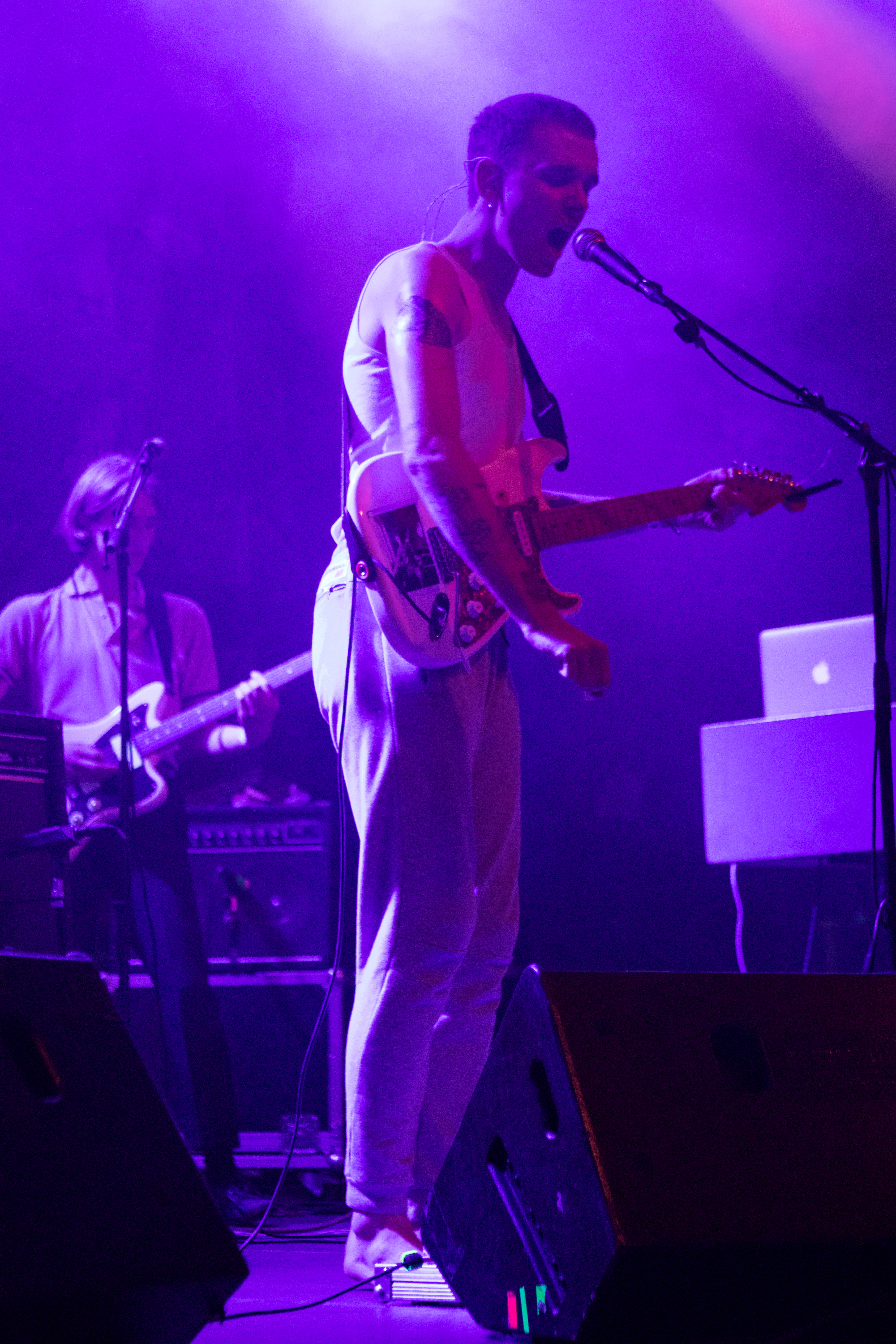 Drangsal at Way Back When Festival 2017 in Dortmund